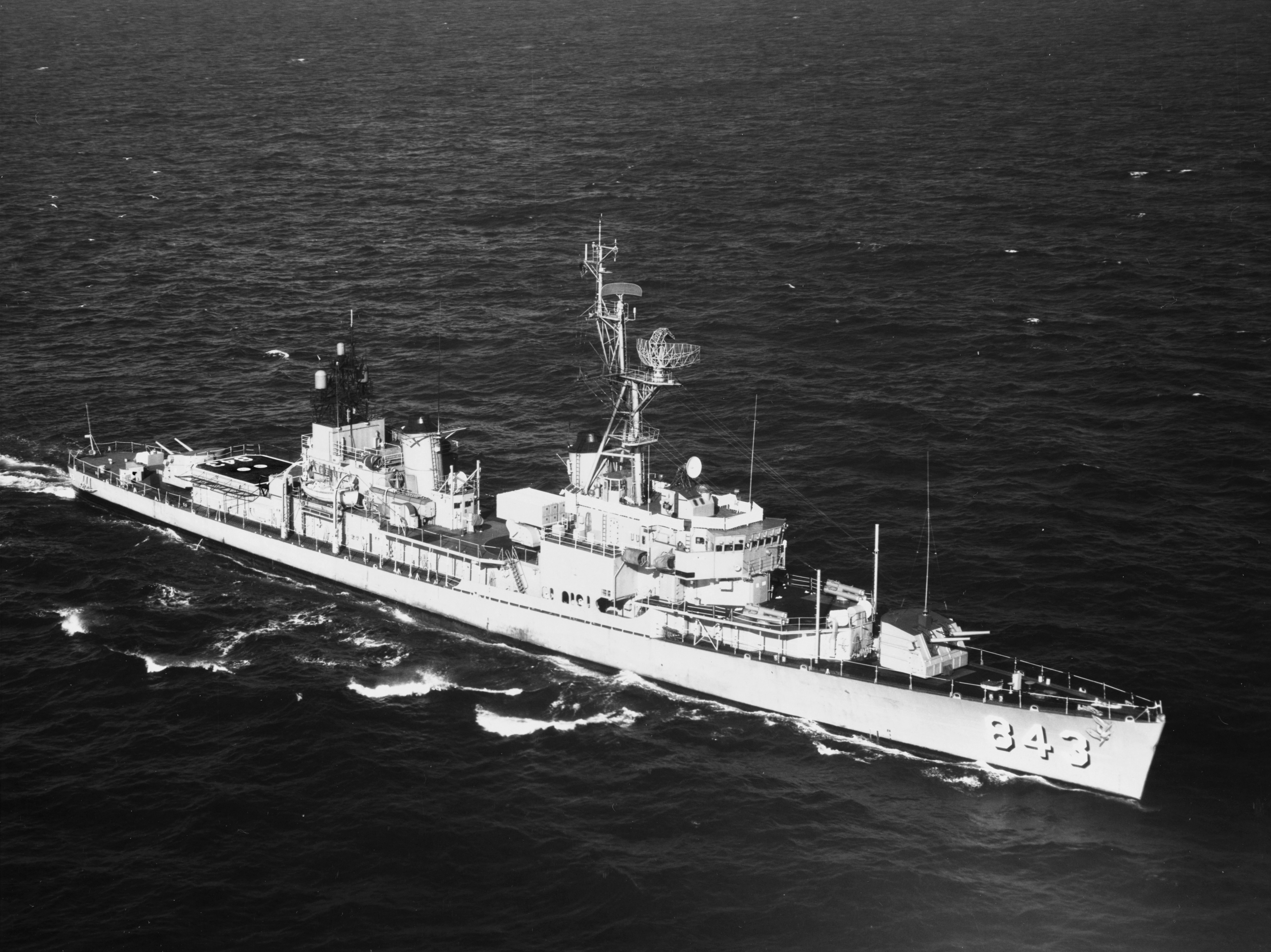 The U.S. Navy destroyer USS Warrington (DD-843) underway after her FRAM I conversion, circa 1962-1972.